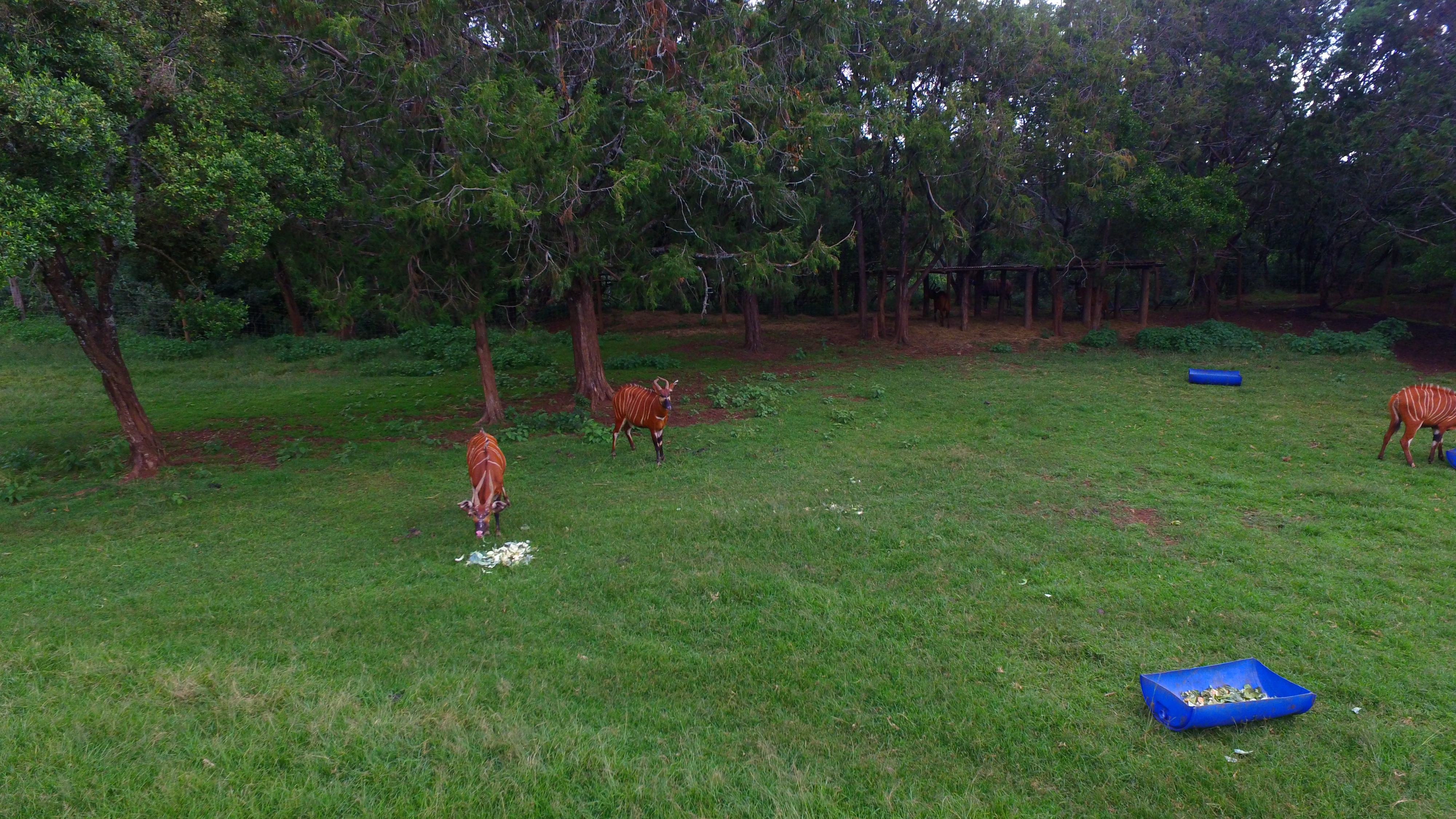 Mountain Bongos is a critically endangered subspecies in the Bongo species. It is one of the largest antelope. In Kenya, the animal is being held in captivity at the Mt. Kenya Wildlife Conservancy where the animals are highly guarded and taken care of. This is an image with the theme "Africa on the Move or Transport" from: Kenya